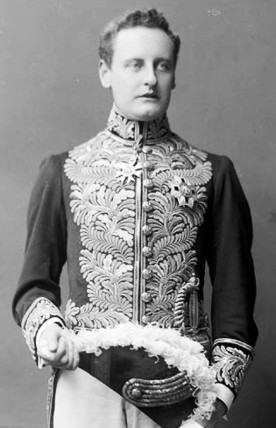 William Lygon, 7th Earl Beauchamp (1872-1938) as Governor of New South Wales, circa 1900.